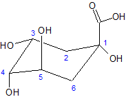 quinic acid